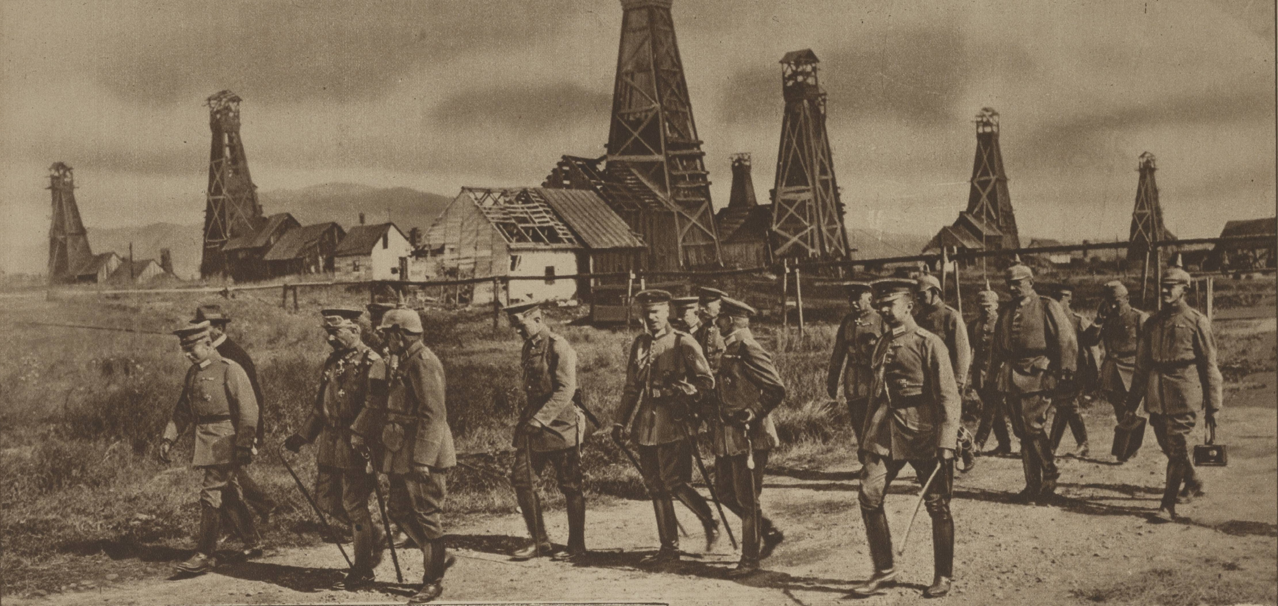 Kaiser William II (German Emperor) with members of his staff and of the Imperial Party, visiting the oil wells of Romania destroyed by the retreating romanians, restored to full operations by the germans.